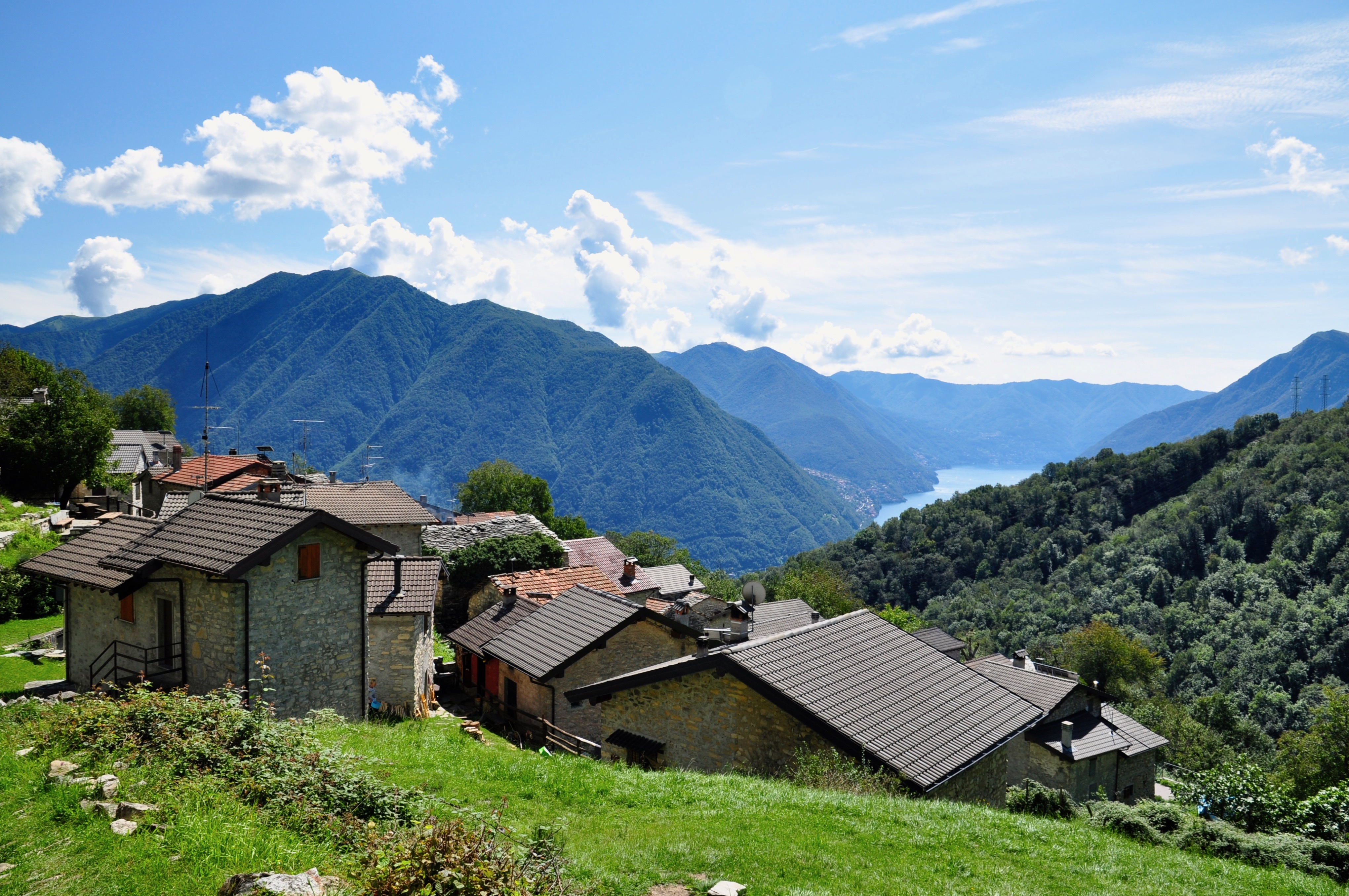 Corniga, Colonno (CO), Italy